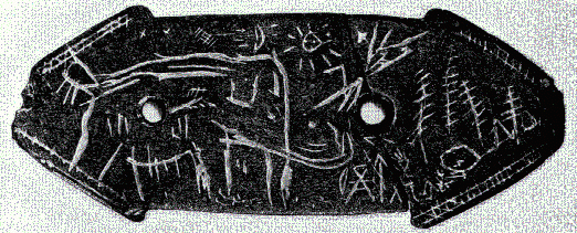 A carved stone found in Bucks County, Pennsylvania, depicting Native Americans hunting a mammoth